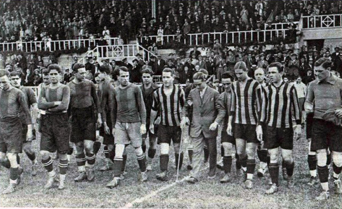 Players of CA Peñarol and FC Barcelona entering the pitch of Camp de Les Corts in Barcelona for an exhibition game. The match was part of an extensive tour through Europe by the Uruguayan team. Walking with a cane and being supported by players of both teams is Barcelona’s Esteban Pedrol, who performed the kick-off. Two month earlier, he broke his fibular and tibia during a match against Valencia CF.